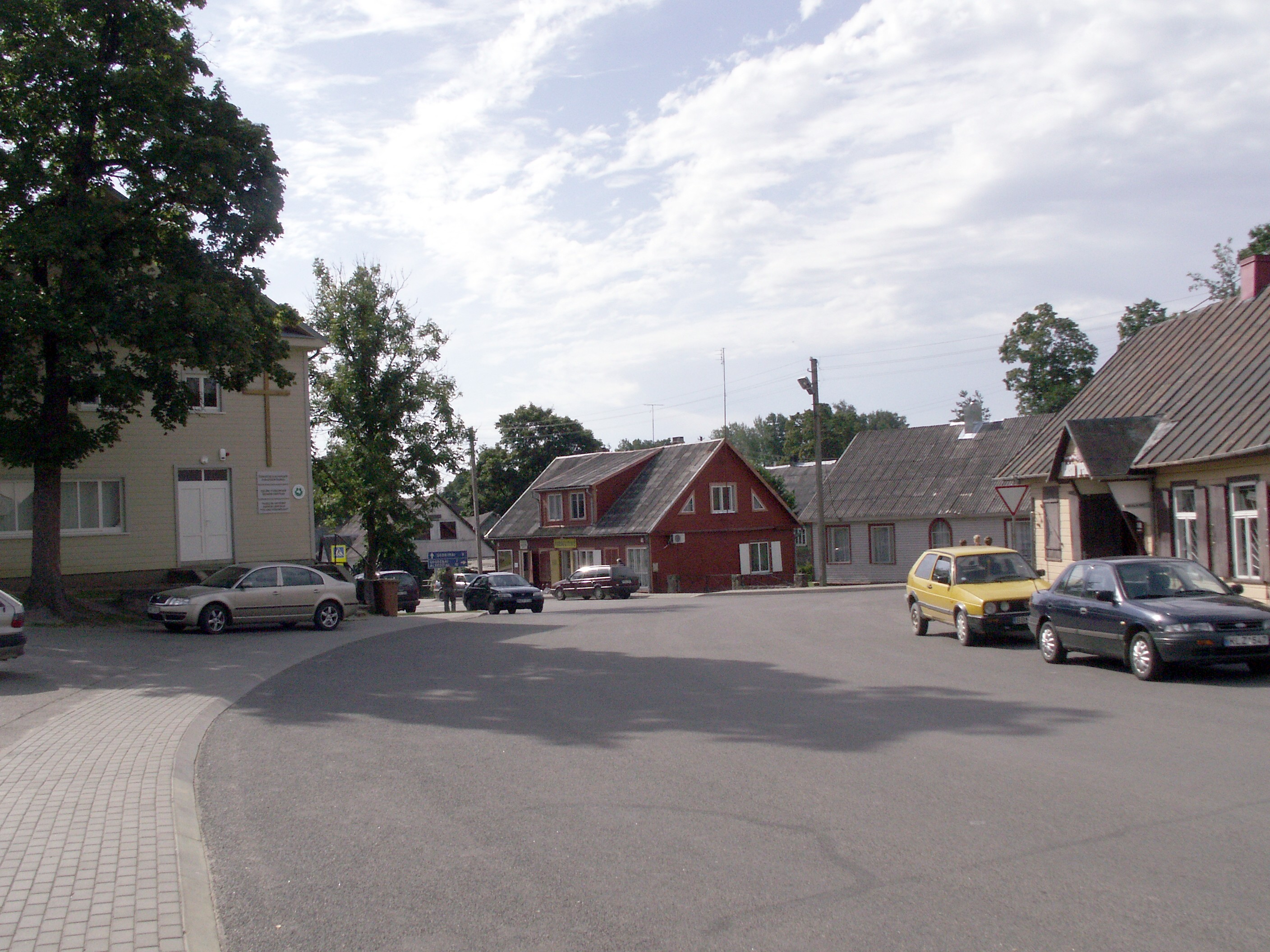 Žemaičių Kalvarija, Plungė district, Lithuania